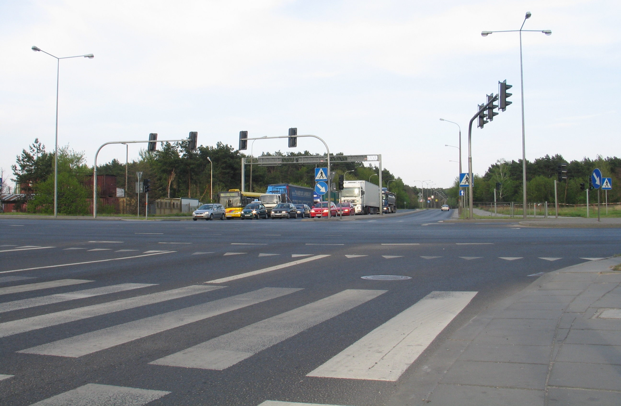 Obwodnica Włocławka – a partial ring road, Włocławek, Poland